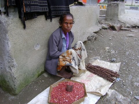 Woman selling spices at Gleno